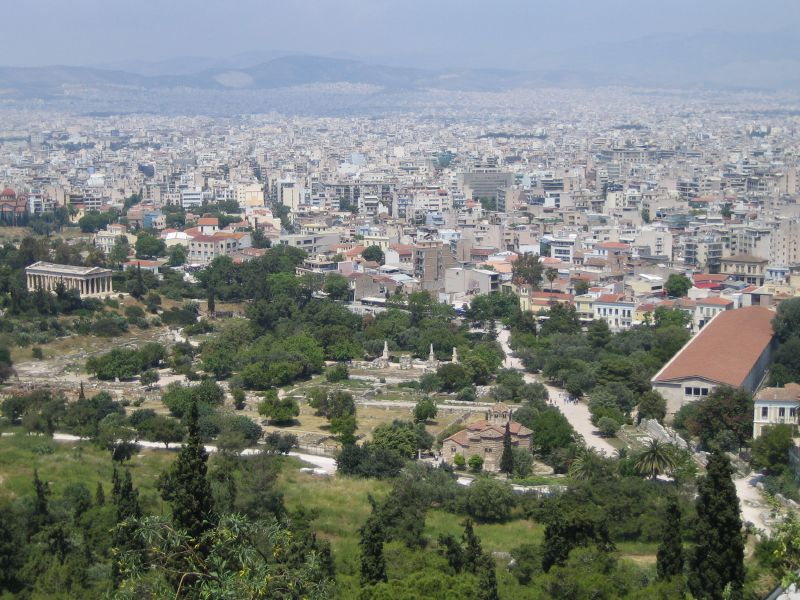 View of the ancient agora of Athens, showing temple of Hepaestus to the left and the rebuilt Stoa of Attalos.